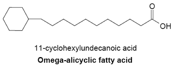 11-cyclohexyludencanioc acid